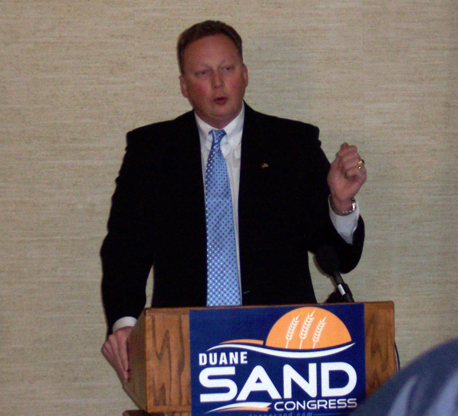 Taken at the Duane Sand campaign announcement in Bismarck, ND in March 2008.